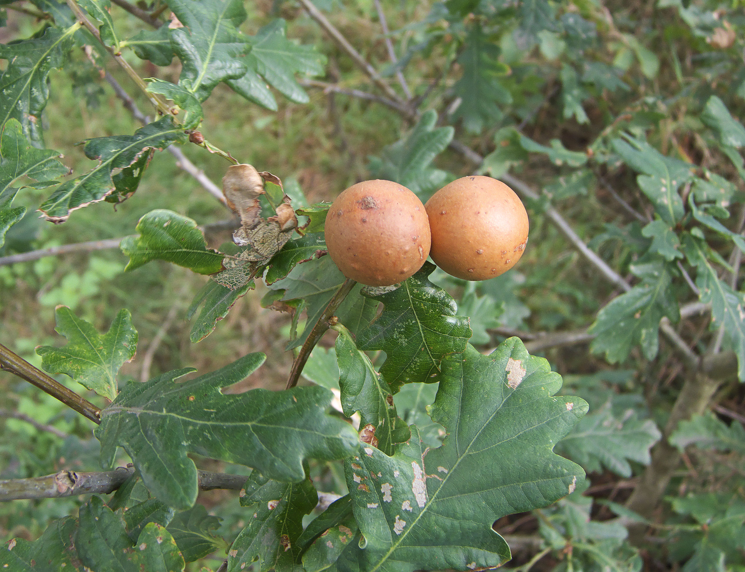 Andricus kollari, oak marble gall